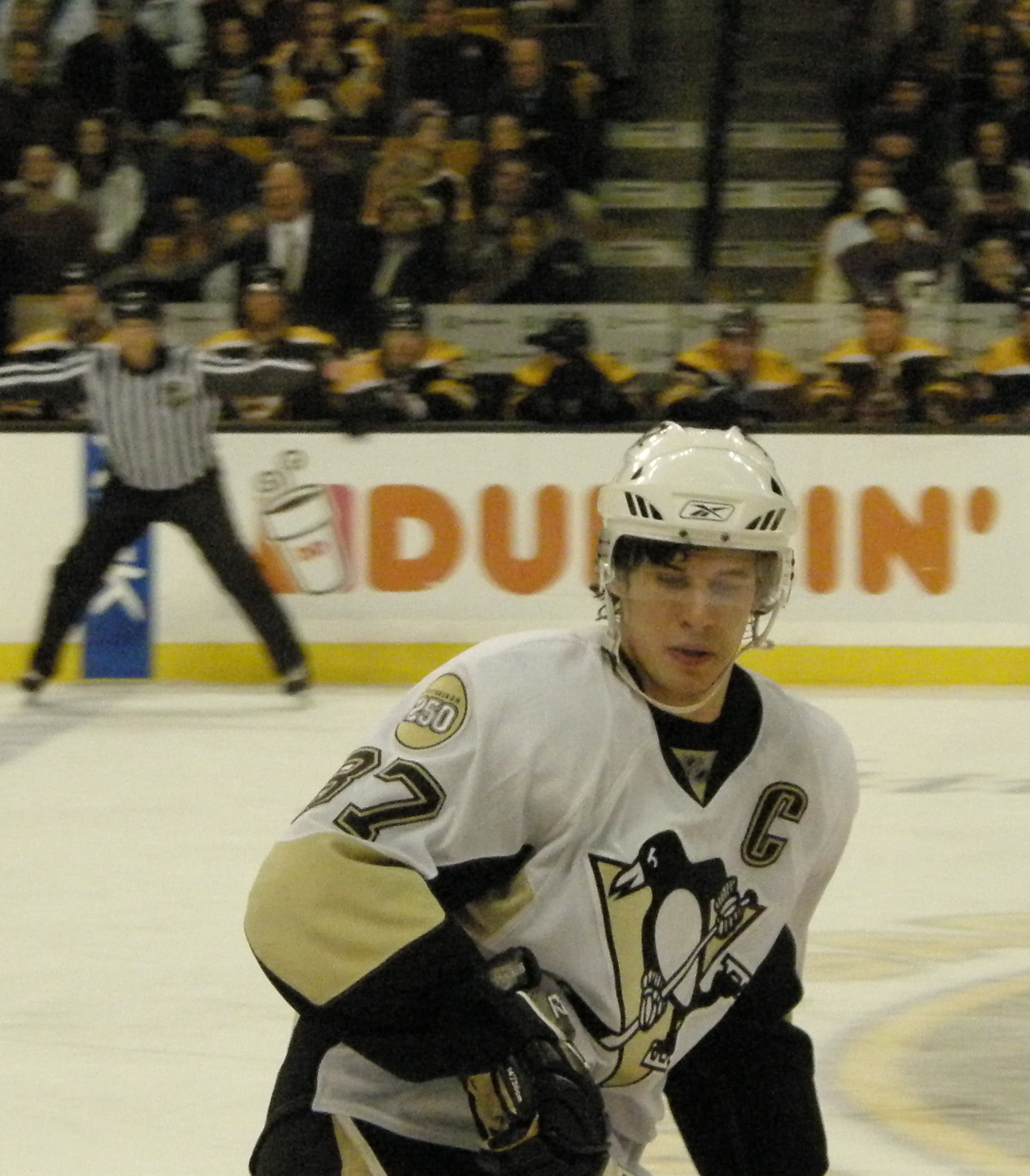 Sidney Crosby, captain of the Pittsburgh Penguins, chasing the puck